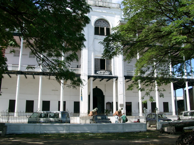 Beit al Ajaib (House of Wonders) — in Stone Town, Category:Zanzibar City